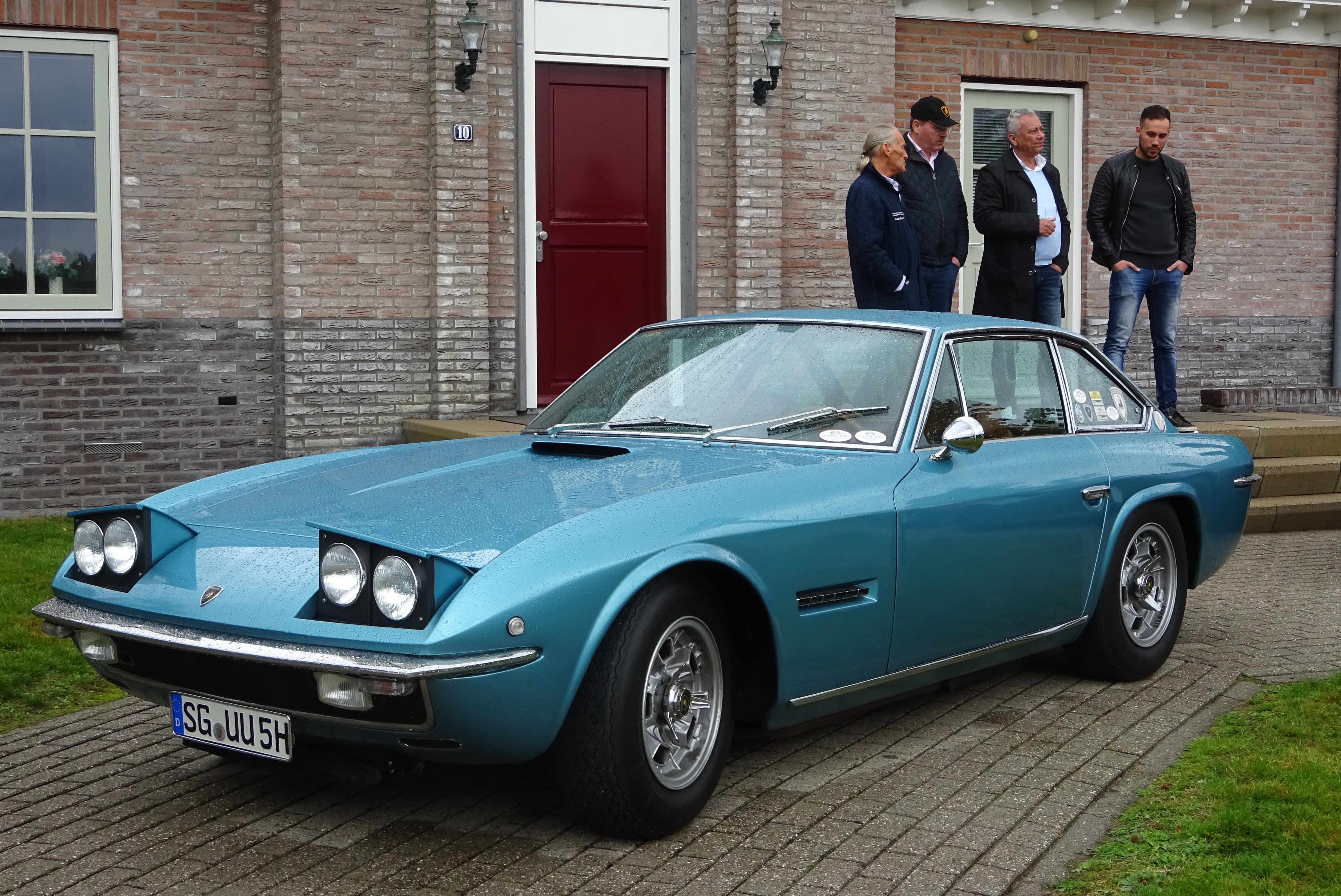 Lamborghini Islero S from Germany during "Oldtimerdag Appelscha 2017"